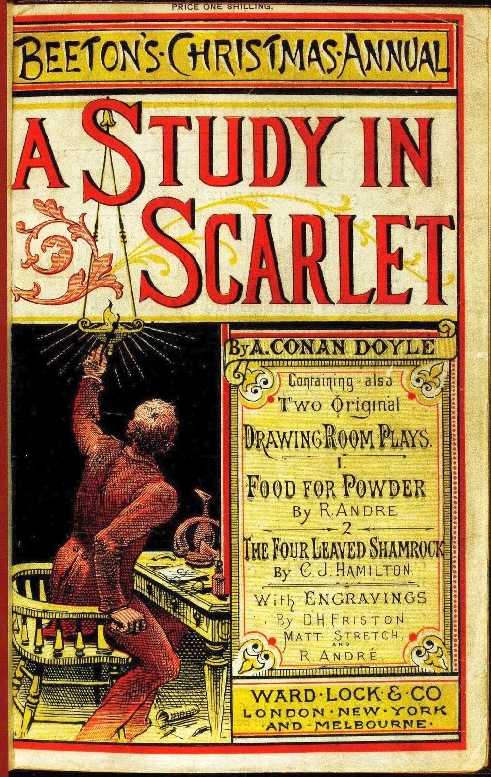 Cover of Beeton's Christmas Annual for 1887, featuring A. Conan Doyle's story A Study in Scarlet